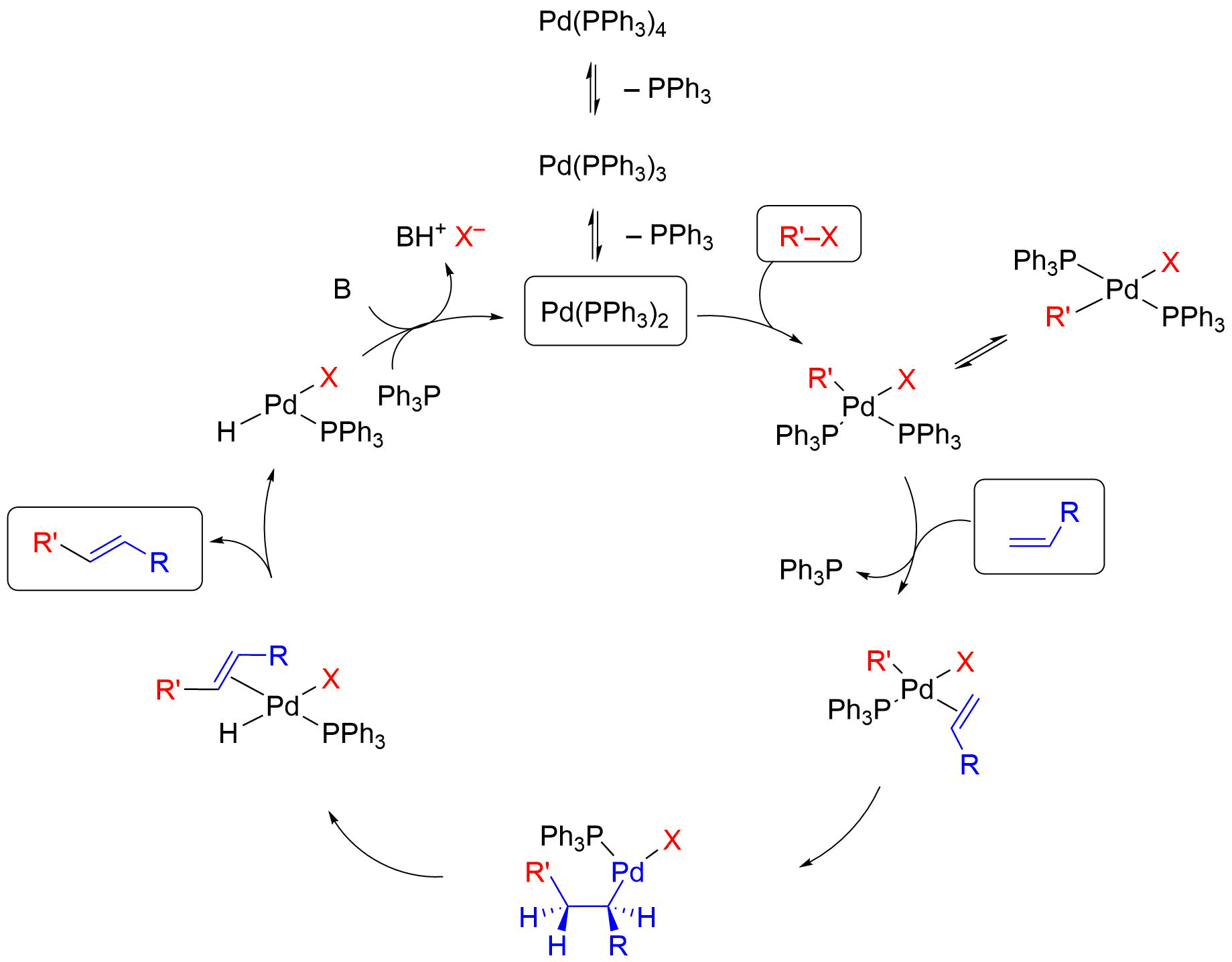 Heck reaction mechanism